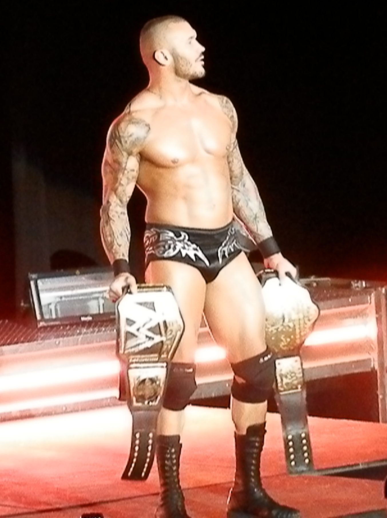 Randy Orton as the WWE World Heavyweight Champion on January 3, 2014, at a WWE show. Cropped from original.